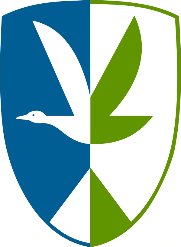 Coat of armas of Vordingborg Municipality